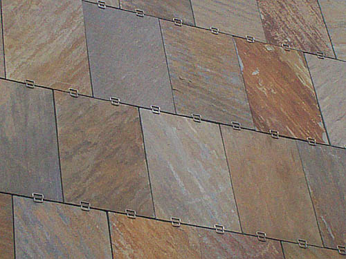 Slate tiles on the outside of the Honan-Allston Library